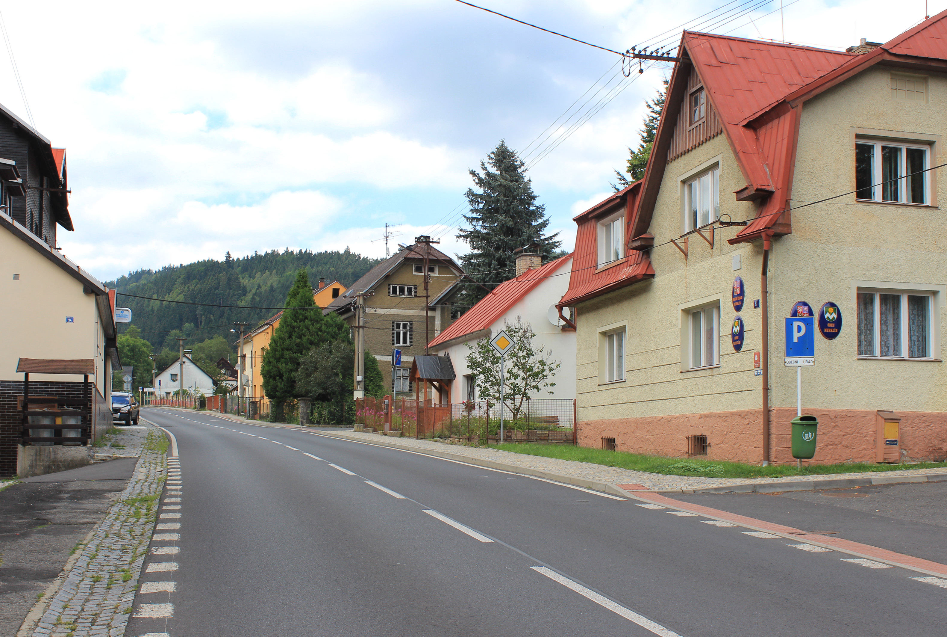 Road No. 221 in Merklín, Czech Republic.